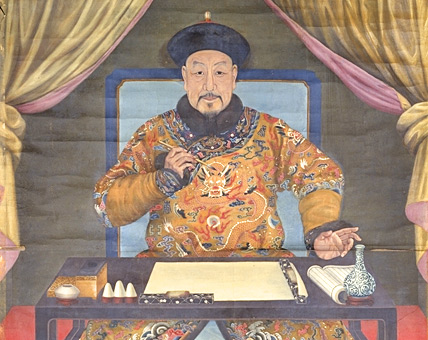 Emperor Qianlong Practicing Calligraphy, mid-18th century.